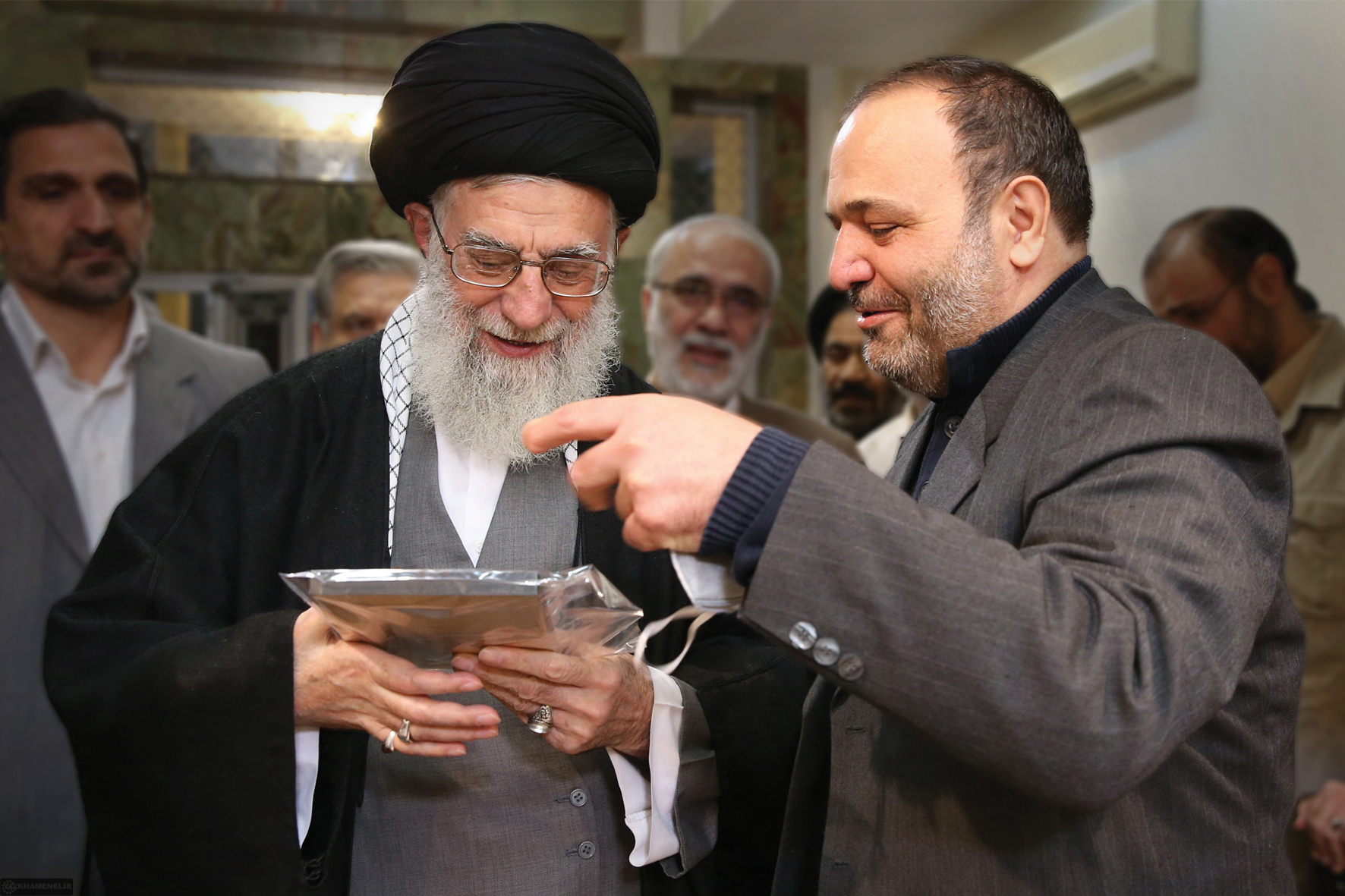 Ayatollah Sayyed Ali Khamenei Meets Ali Khoshlafz